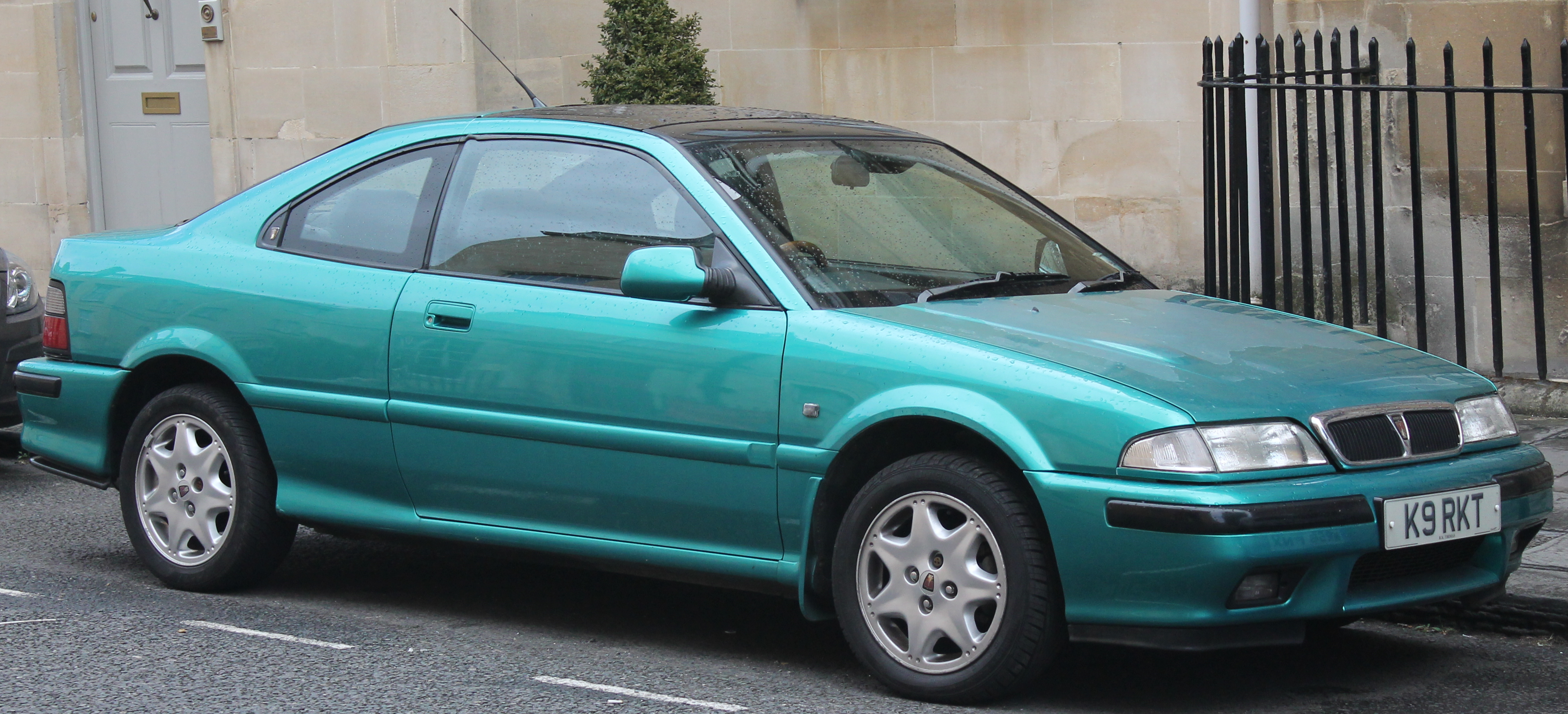 Much better looking than normal Rover 200 series cars, IMO. Rather an odd colour, which I wouldn't choose myself! Seen in Bath